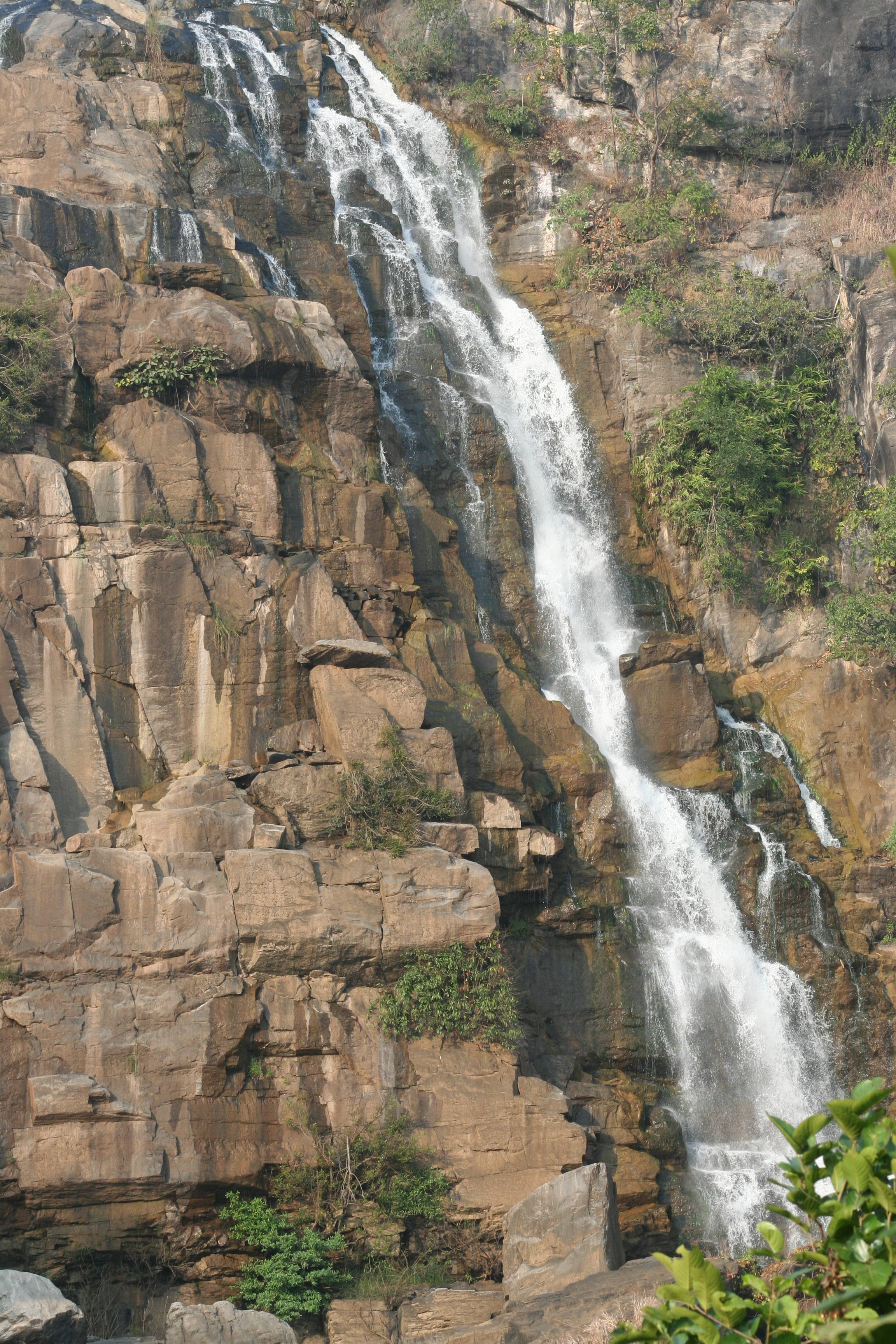 Sita Falls, located about 40 kms from Ranchi, Jharkhand, India